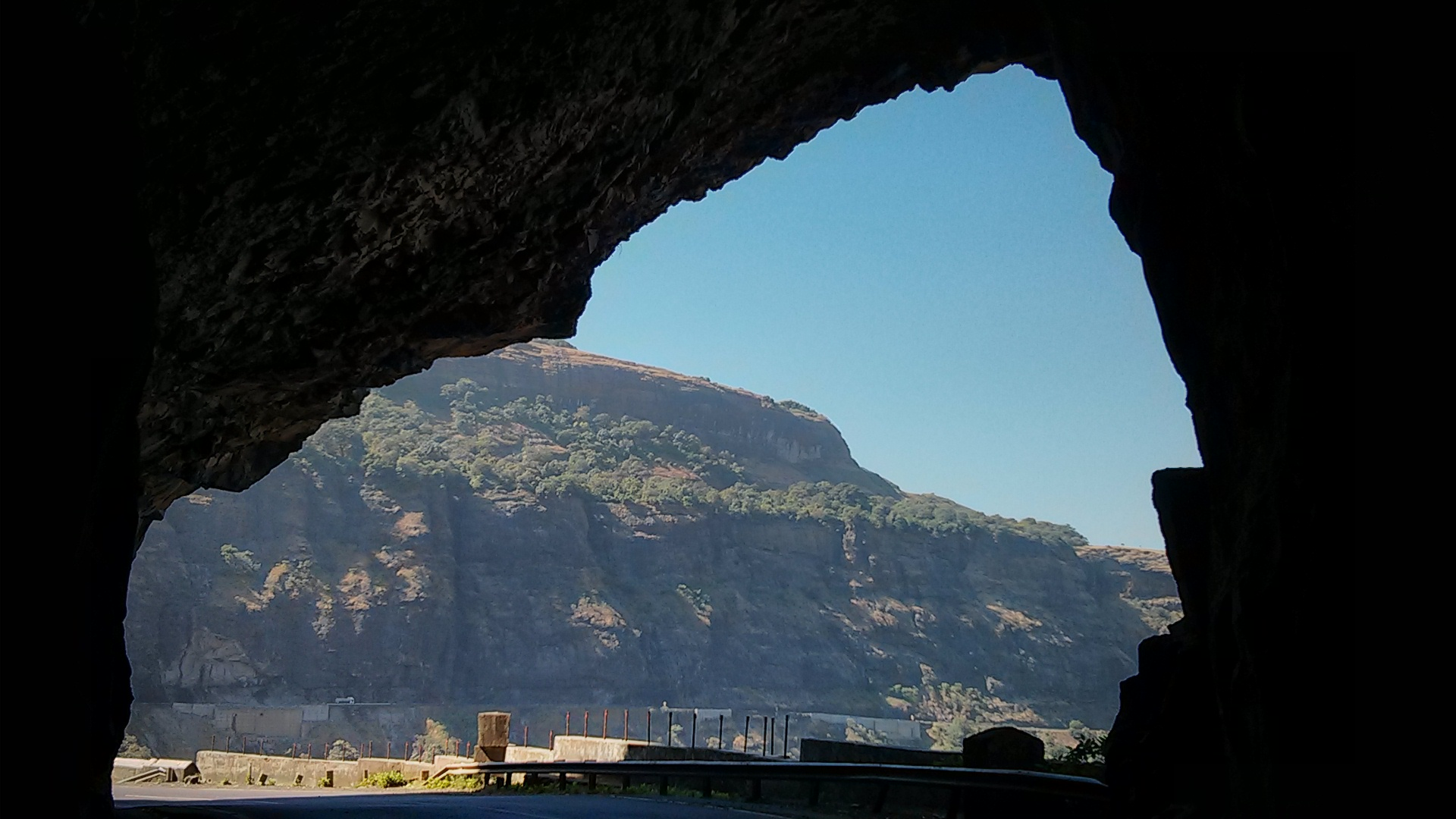 ... the tunnel in Malshej Ghat